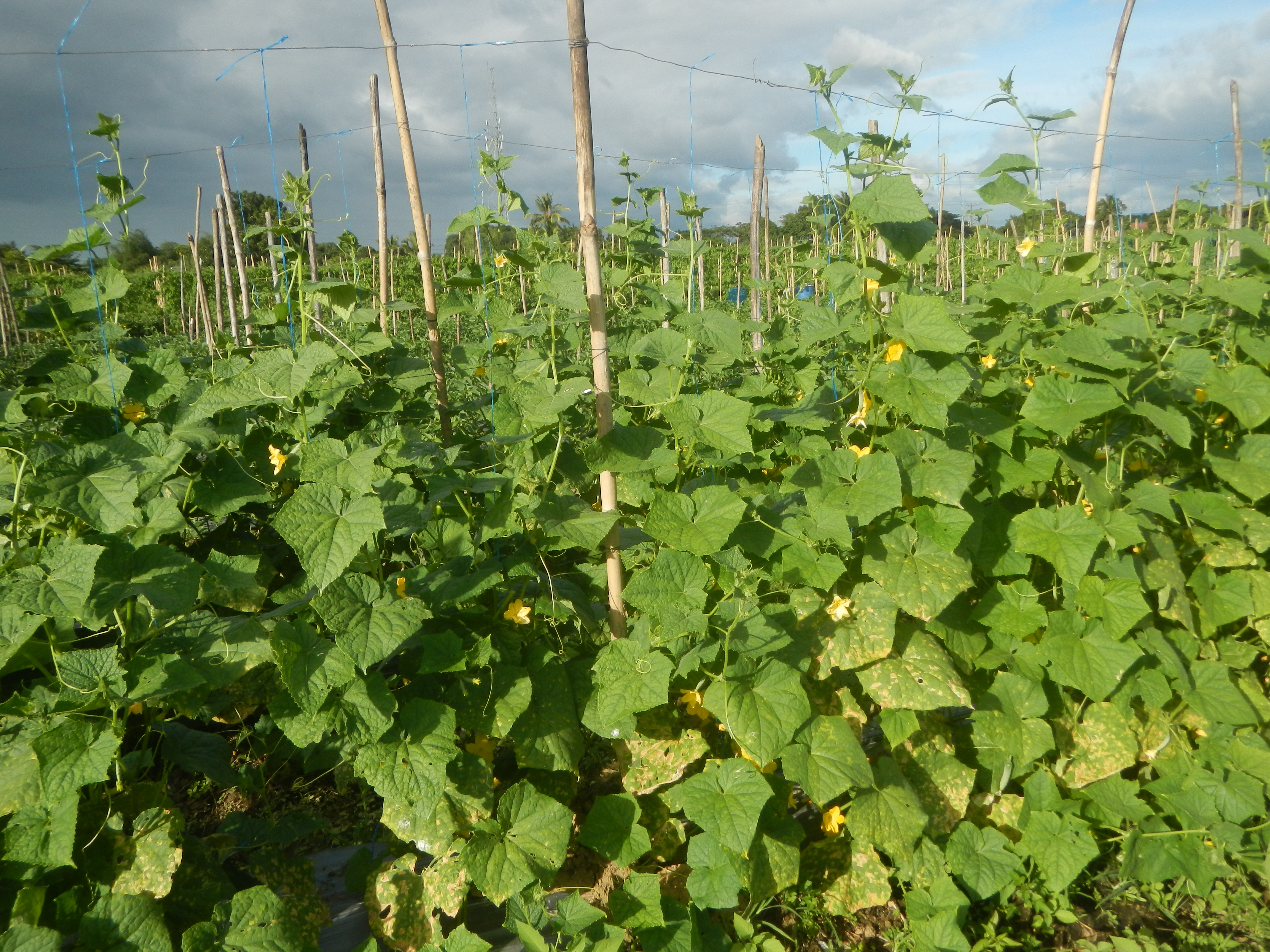 Cucumber (Cucumis sativus) Cucumber plantations in San Rafael, Bulacan in San Rafael, Bulacan in Barangay Maronquillo, San Rafael, Bulacan Barangay Maronquillo geographical coordinates: 14° 56' 54" North, 120° 57' 44" East San Rafael, Bulacan (Note: Judge Florentino Floro, the owner, to repeat, Donor Florentino Floro of all these photos hereby donate gratuitously, freely and unconditionally all these photos to and for Wikimedia Commons, exclusively, for public use of the public domain, and again without any condition whatsoever).